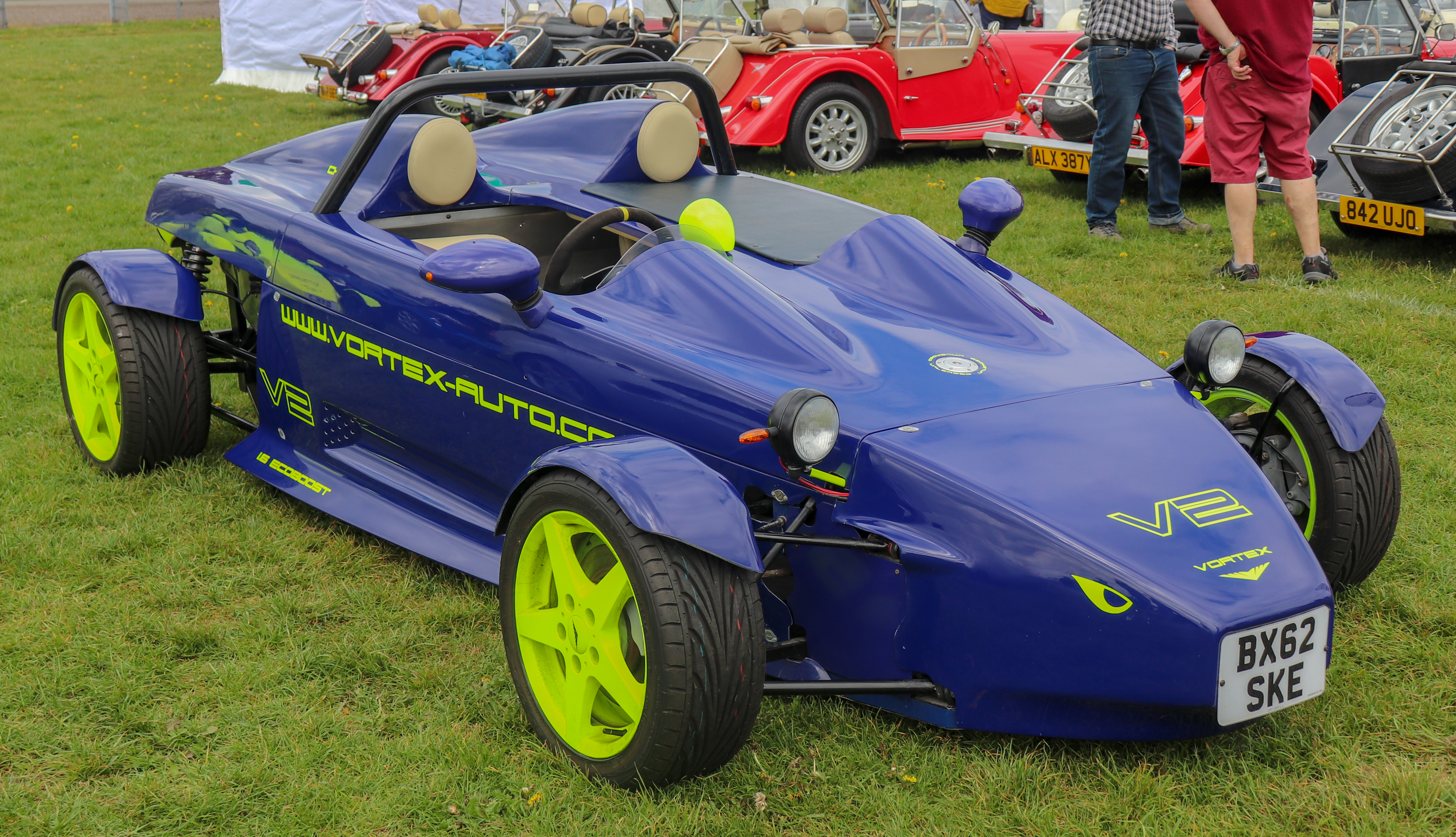 2012 Vortex V 2 2.0 Front Taken at the Stoneleigh National Kit Car Motor Show 2019